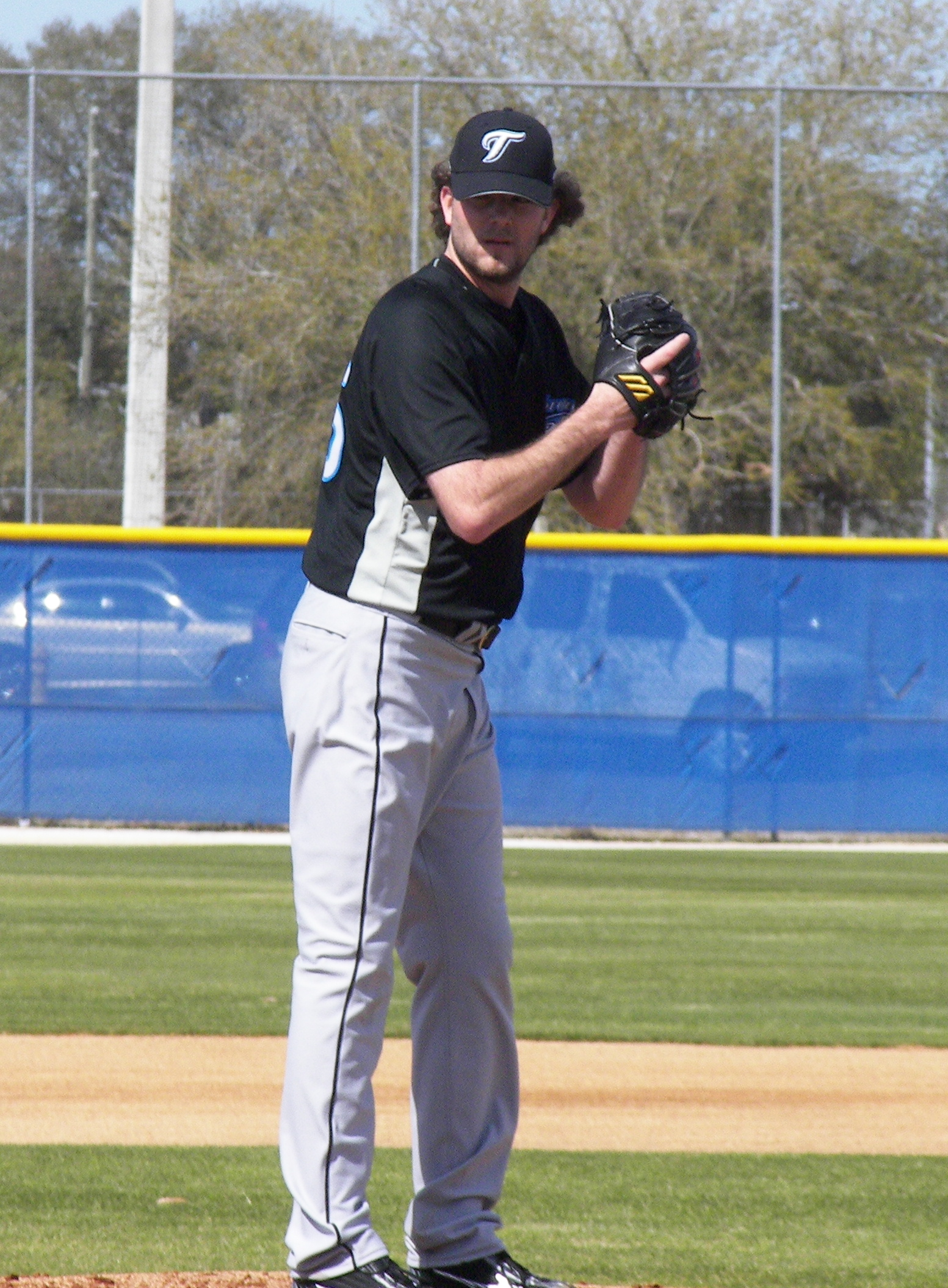 Toronto Blue Jays pitcher Brian Tallet during a spring training workout at the Blue Jays' spring training complex in Dunedin, Florida.